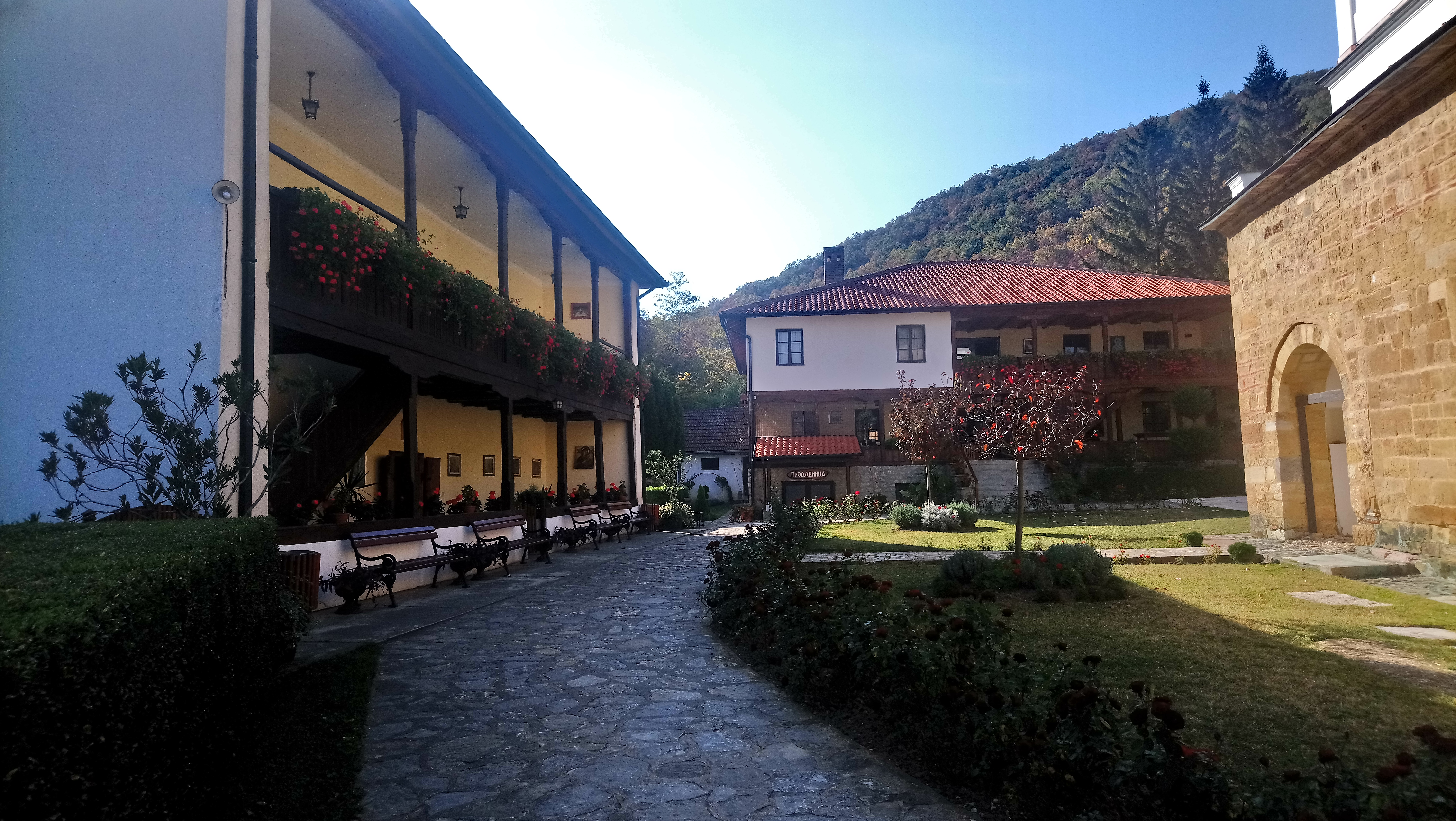 Monastery Drača, Serbia